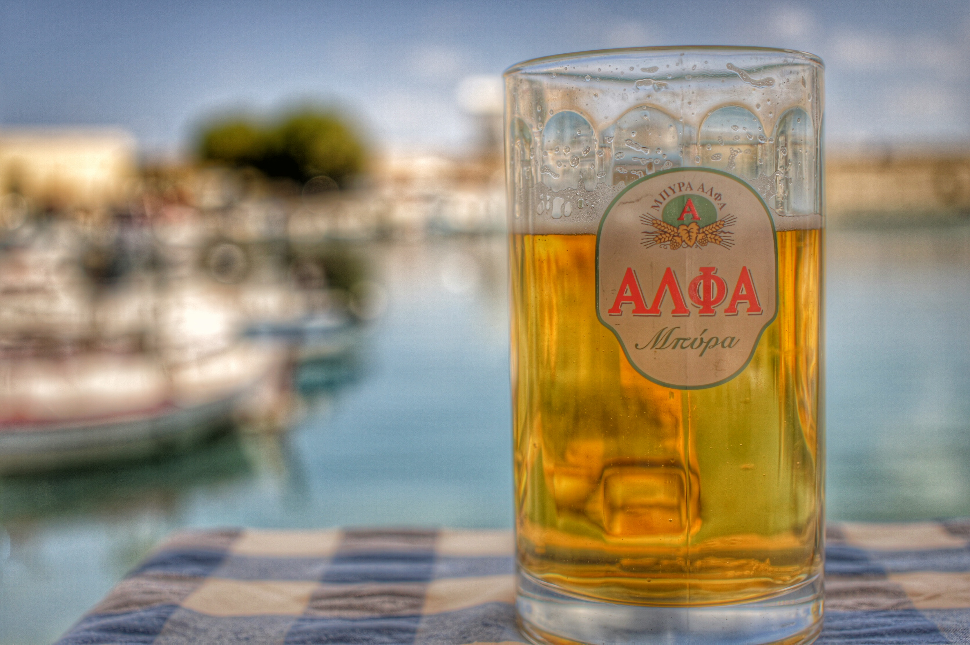 A glass of beer